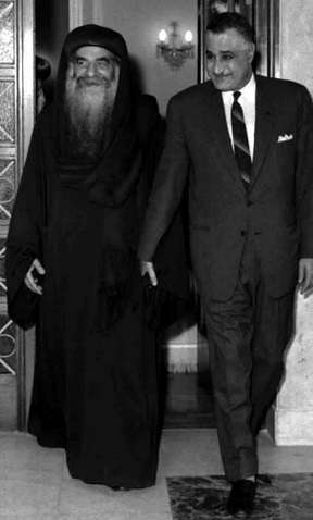 Egyptian President Gamal Abdel Nasser (right) with Coptic Pope Kyrillos VI